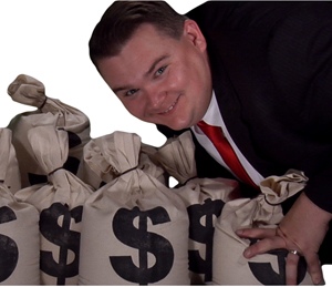 Buzz Tweed, a fictitious congressman, is an internet movie personality who stars in videos which make fun of political issues such as the bailout of the 21st century. His name originated as a derivative of William (Boss) Tweed,of the Tammany Hall political machine in New York City. Watch Buzz Tweed's congressional bailout commercial here